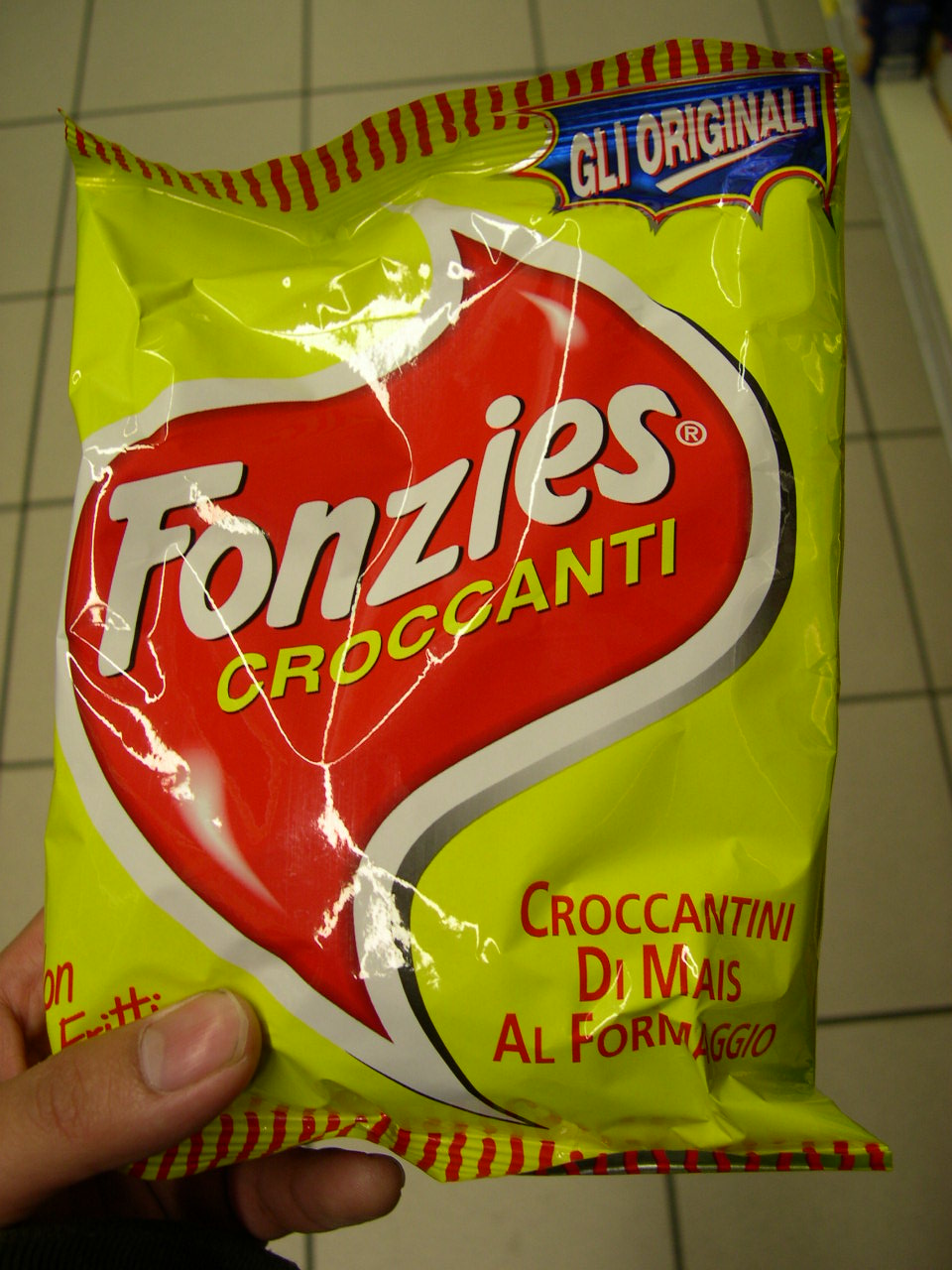 Photo of a packet of Fonzies